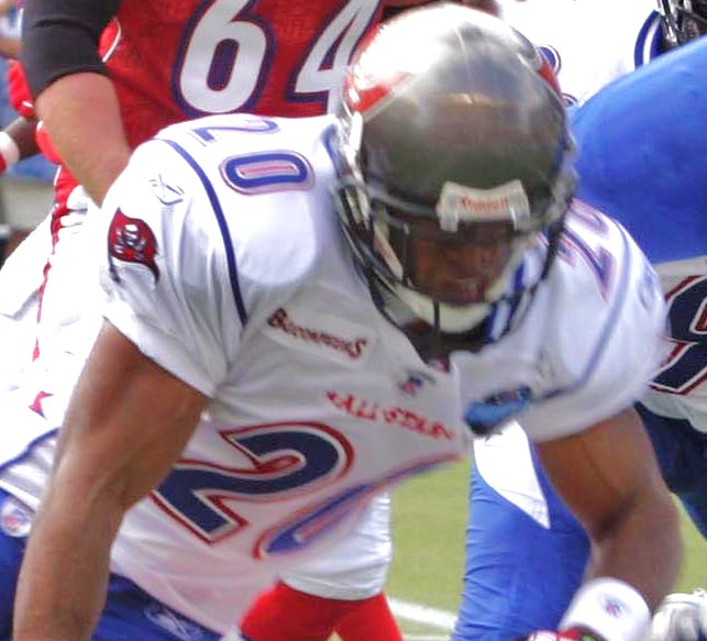 Ronde Barber at the en:2006 Pro Bowl.